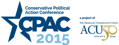 2015 logo for CPAC